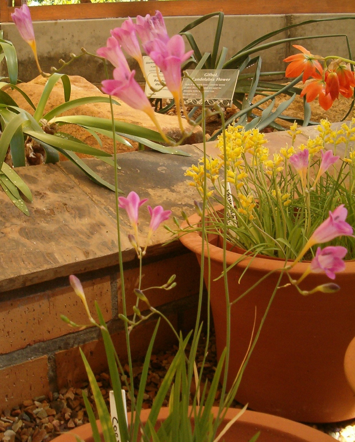 At Kirstenbosch National Botanical Gardens Genus Freesia